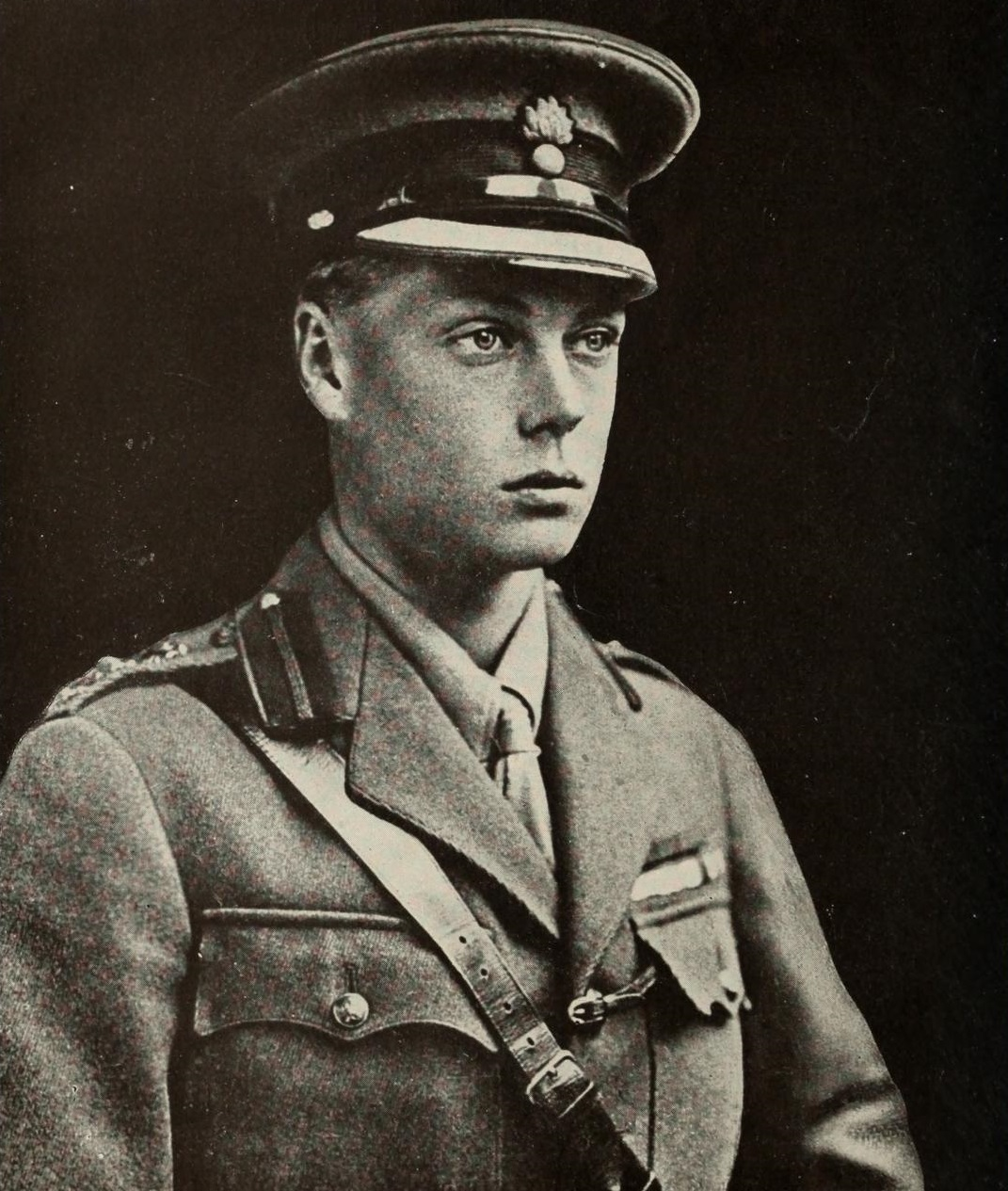 Portrait of Edward, Prince of Wales, later Edward VIII and Duke of Windsor